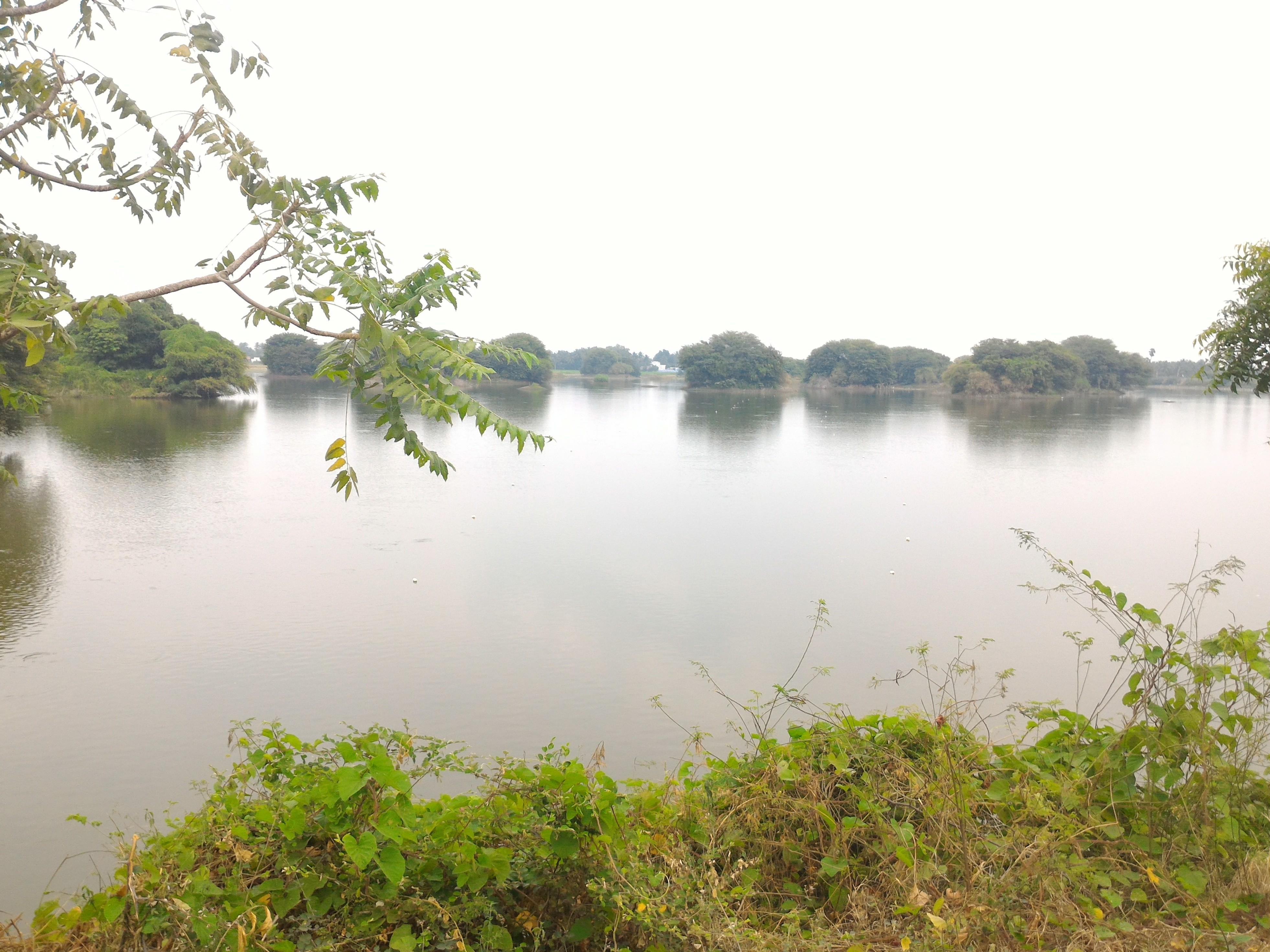 fully filled up lake